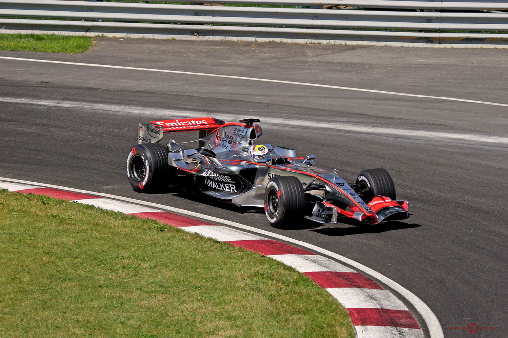 Juan Pablo Montoya driving for McLaren at the 2006 Canadian Grand Prix.